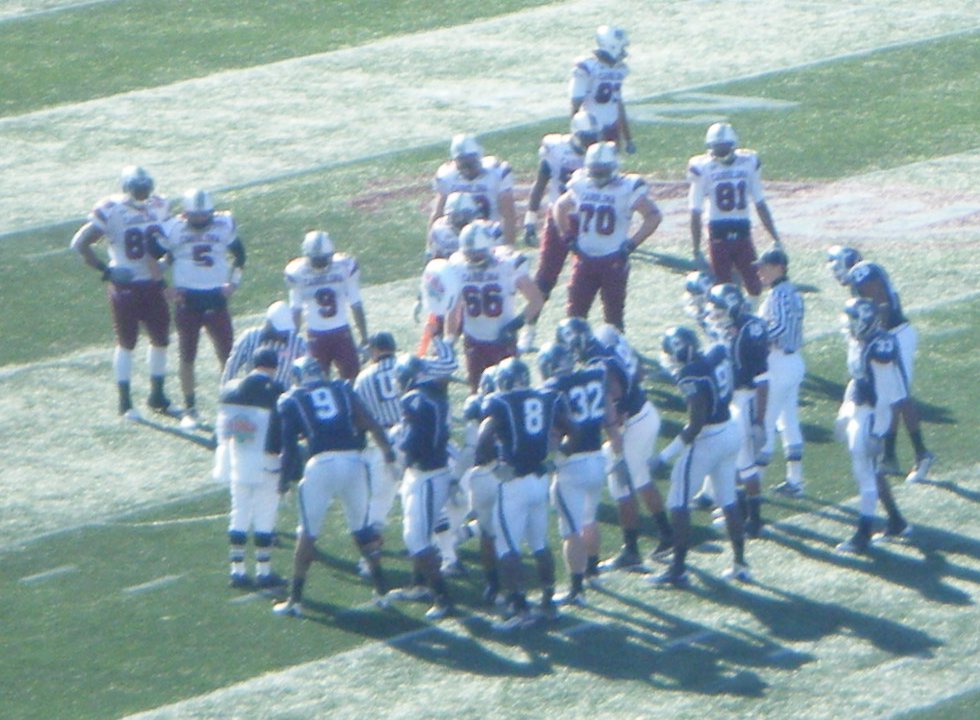 Connecticut and South Carolina football players look on as officials measure to see if Stephen Garcia's fourth down quarterback sneak attempt gave the Gamecocks enough yardage for a first down. The ball would be short of the yardage stick, giving possession of the ball to UConn.